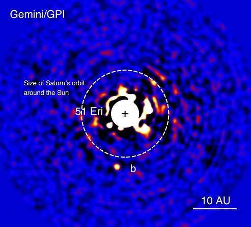 Gemini Science Image posted on Gemini Observatory web page